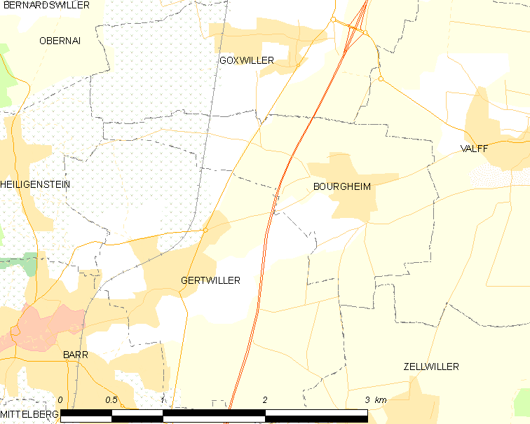 Map of French municipality